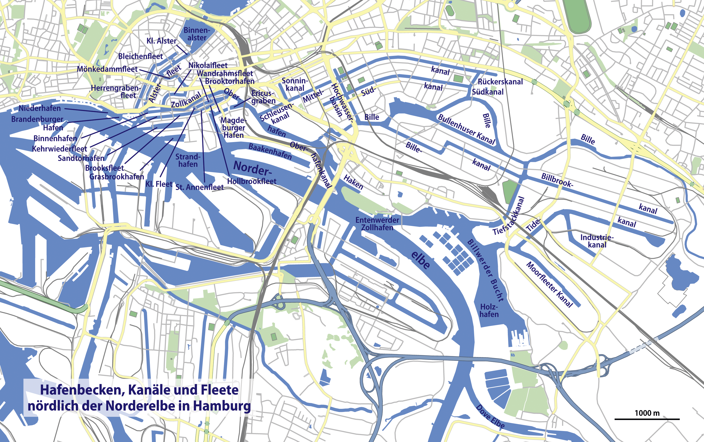 Map of the Port of Hamburg north of the Norderelbe branch of river Elbe This map may be incomplete, and may contain errors. Don't rely solely on it for navigation.